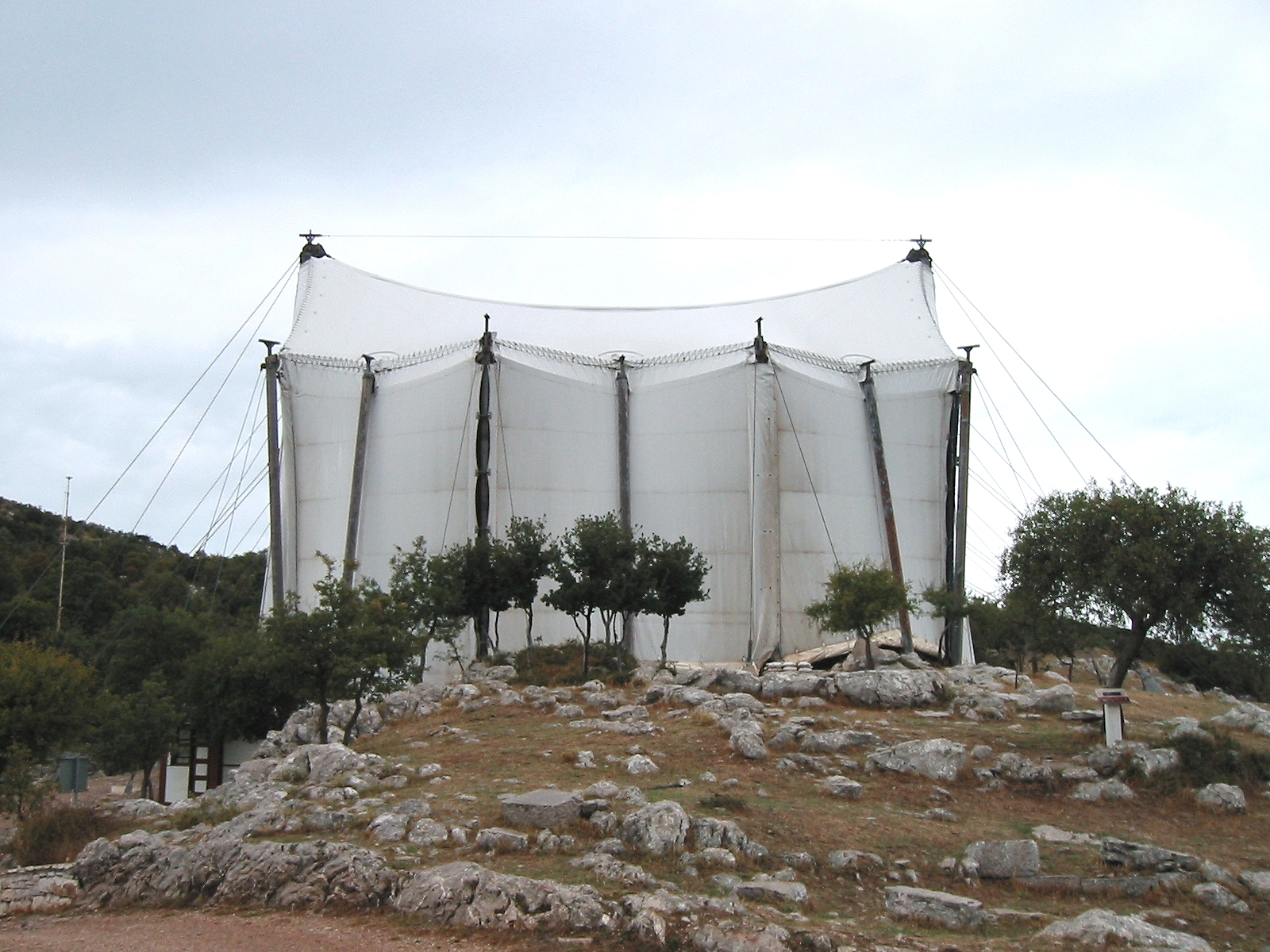 The Bassai Temple Of Apollo in Greece. Protected against the weather by an enormous tent because of his dilapidated state.